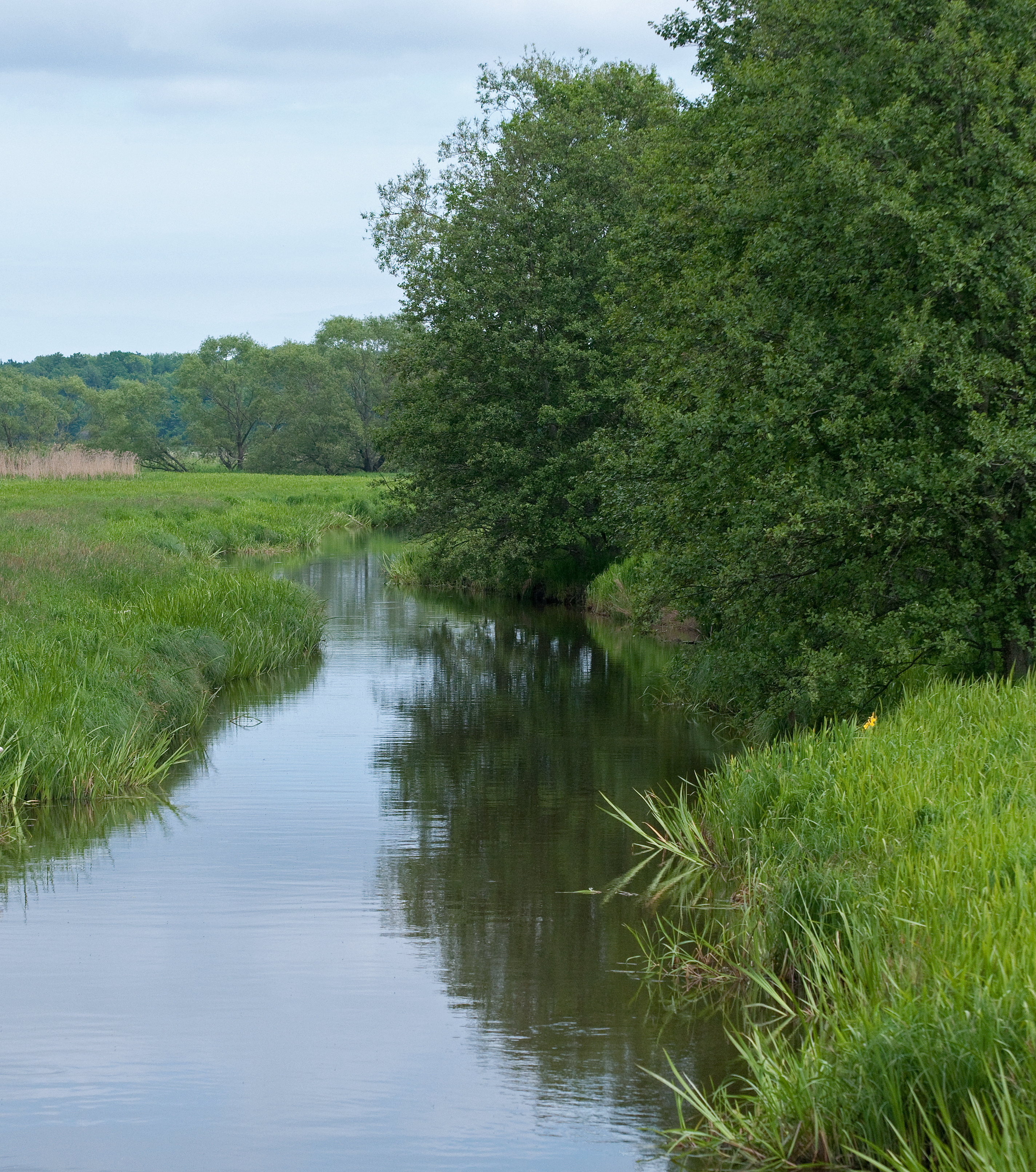 Kilaån at Svanviken